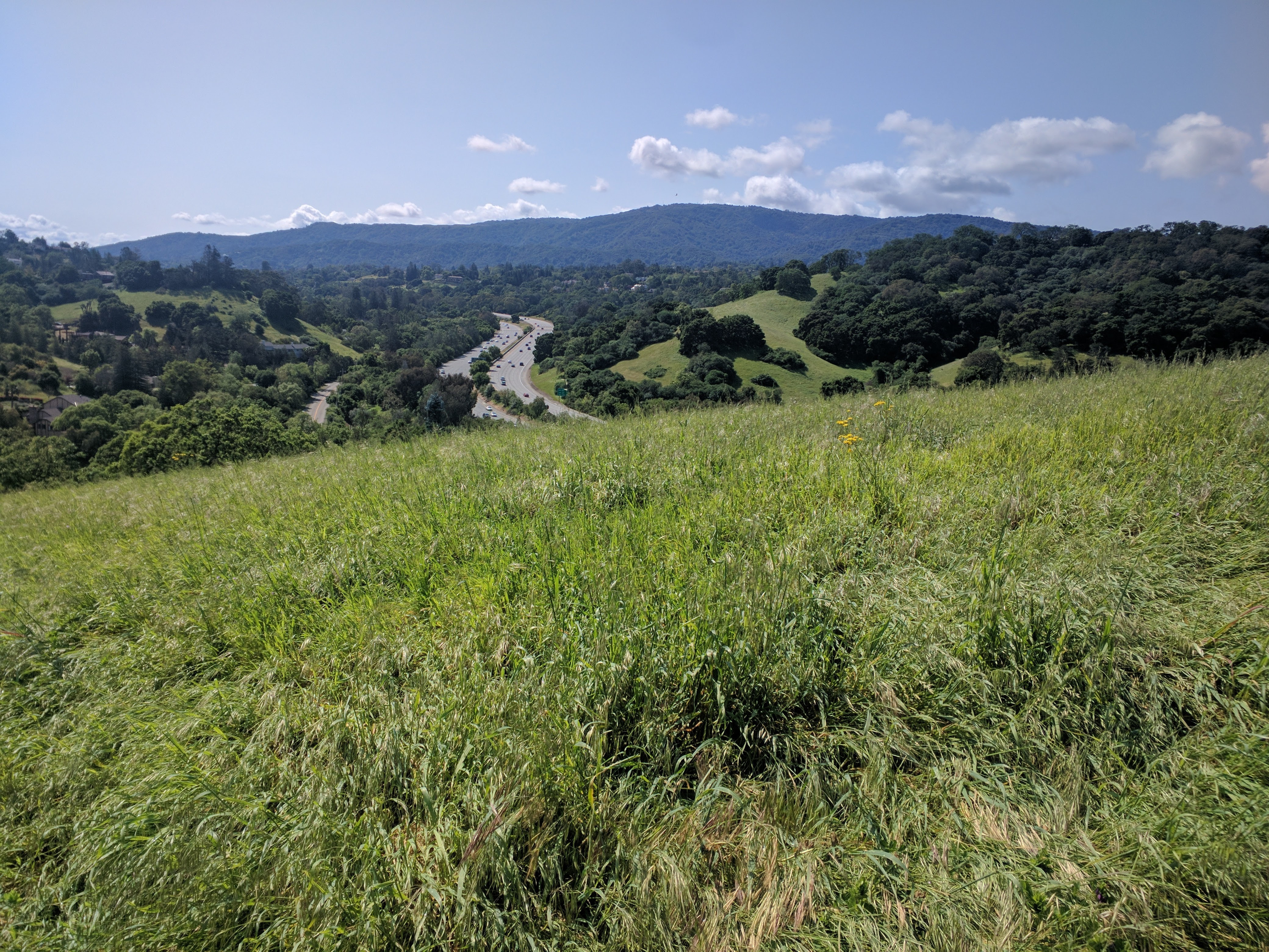 View of Interstate 280 from the Matadero Creek Tail, unincorporated Santa Clara County near Palo Alto, California